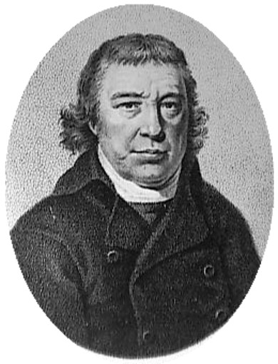 Portrait of Adolphus Ypey (1749-1822), Frisian botanist and Doctor of Philosophy and Medicine